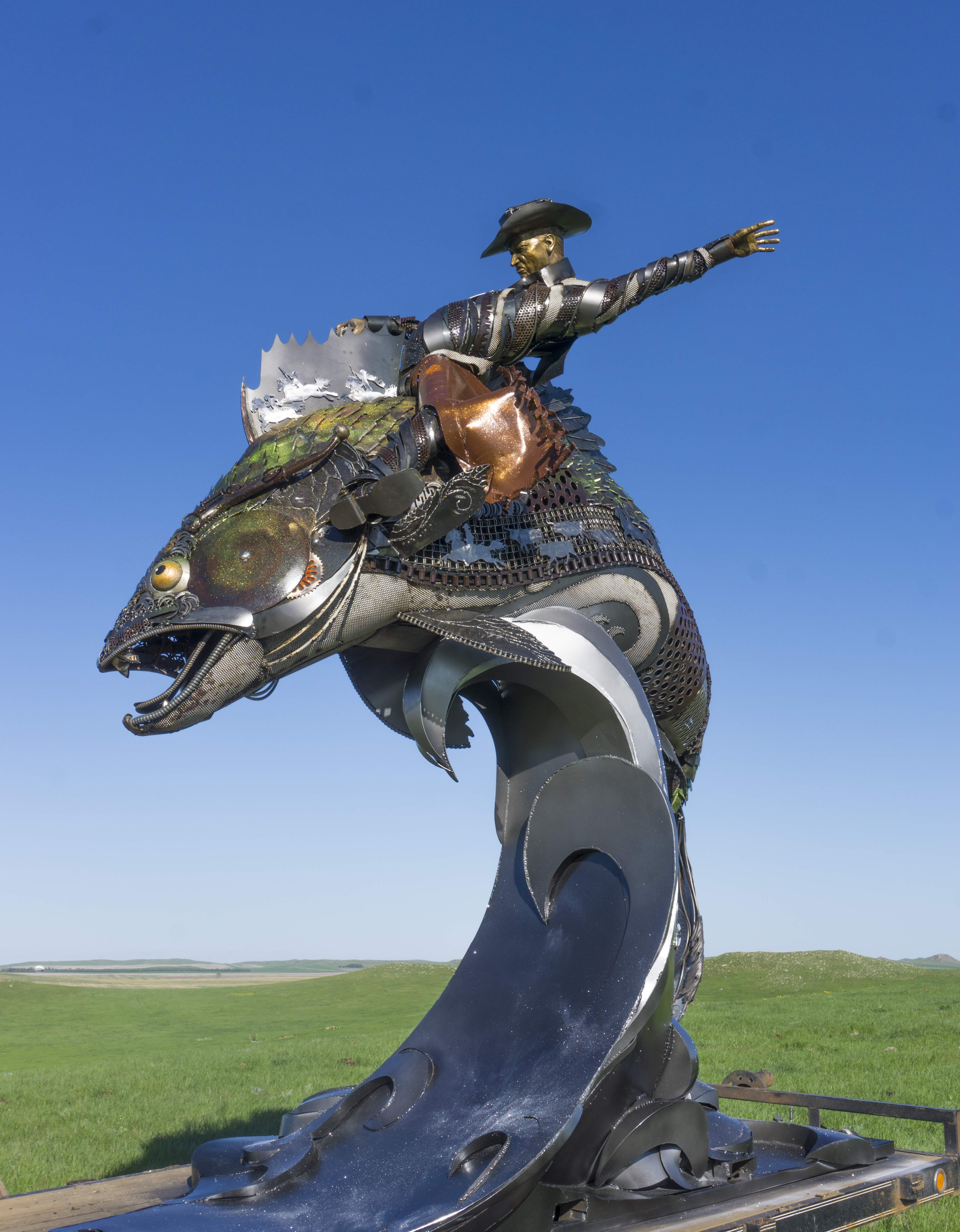 This monumental sculpture of a cowboy riding a walleye stands on the south end of main street in Mobridge.